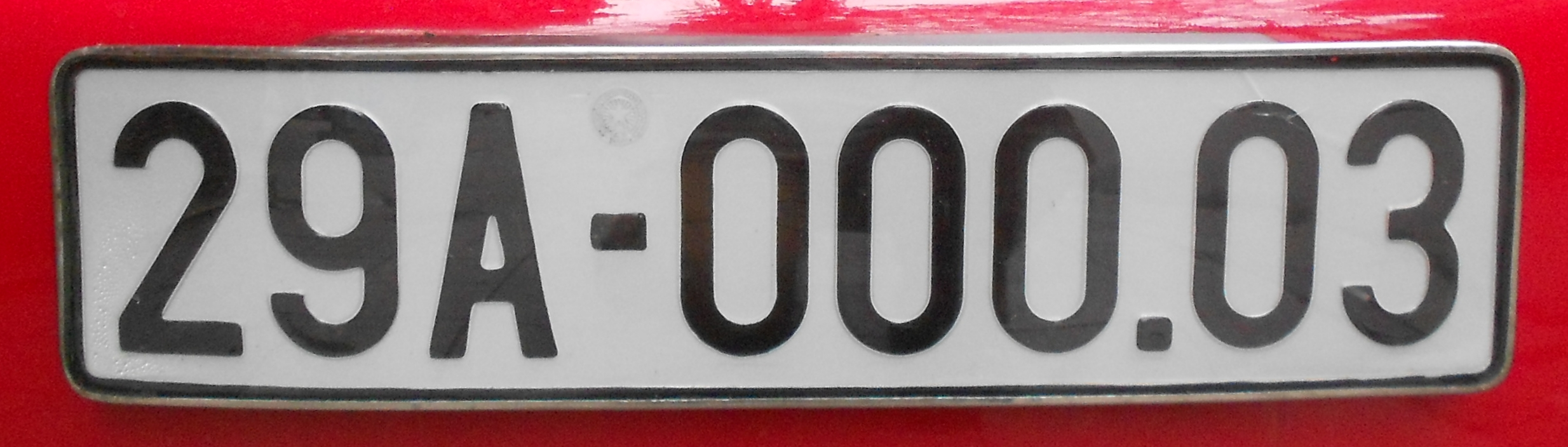 License plate of Ha Noi